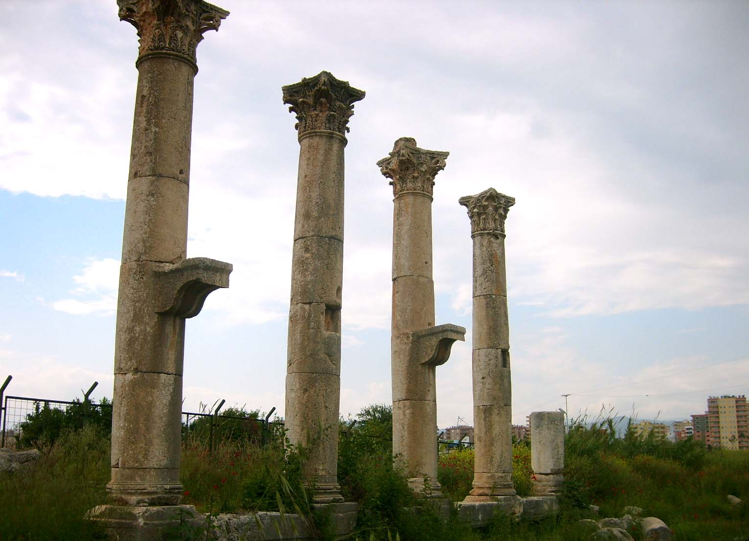 Soli ruins, Mezitli, Mersin - Mersin Province